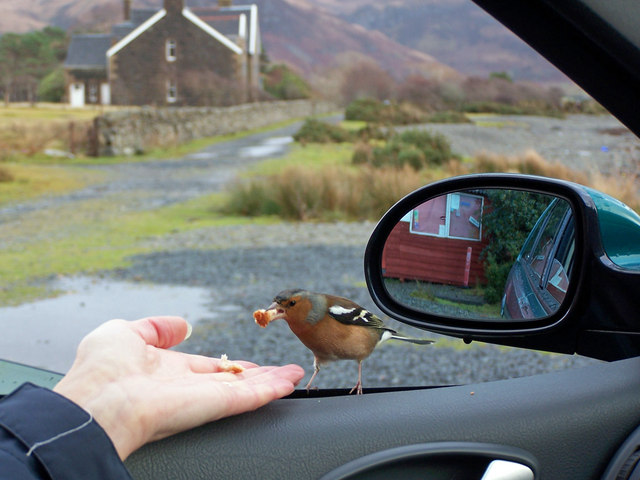 Feed me! The local chaffinches clearly have the visitors well trained. See also 458421. Incidentally, visible in the mirror is Lochbuie post office, and the house in the background is the manse next to St Kilda's Church.